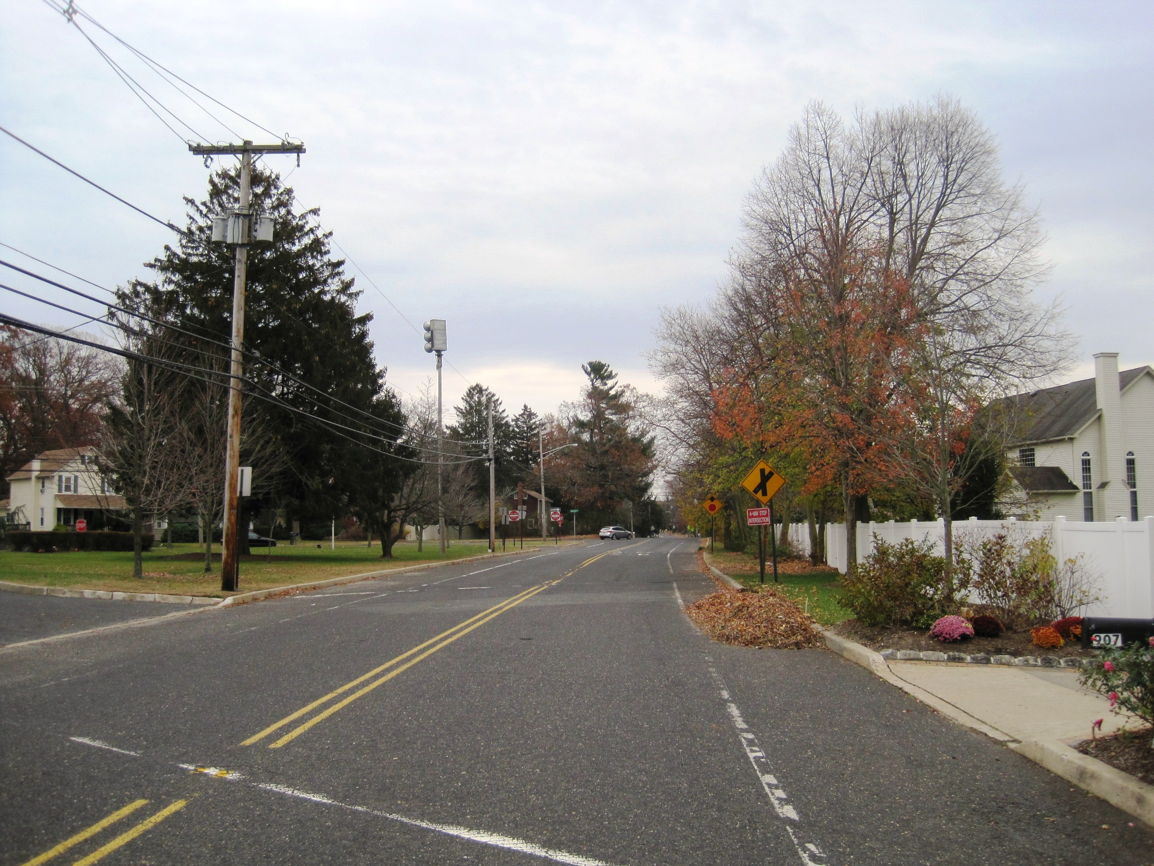 Photo showing Wayside, New Jersey, an unincorporated community on the border of Tinton Falls and Ocean Township in Monmouth County. Photo taken looking south along Wayside Road (County Route 38) approaching Hope Road. The intersection marks the southern terminus of CR 38; Hope Road also marks the Tinton Falls-Ocean Twp. municipal line (photo taken in TInton Falls).